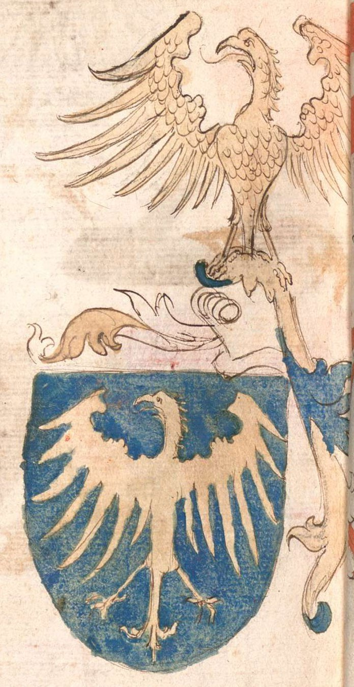 Coat of arms of the Duke of Cieszyn